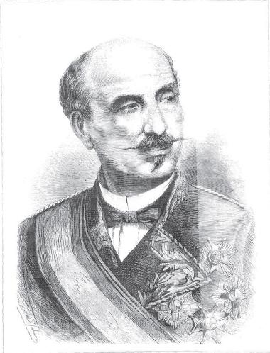 Engraving of the Minister of War General Eulogio González Íscar